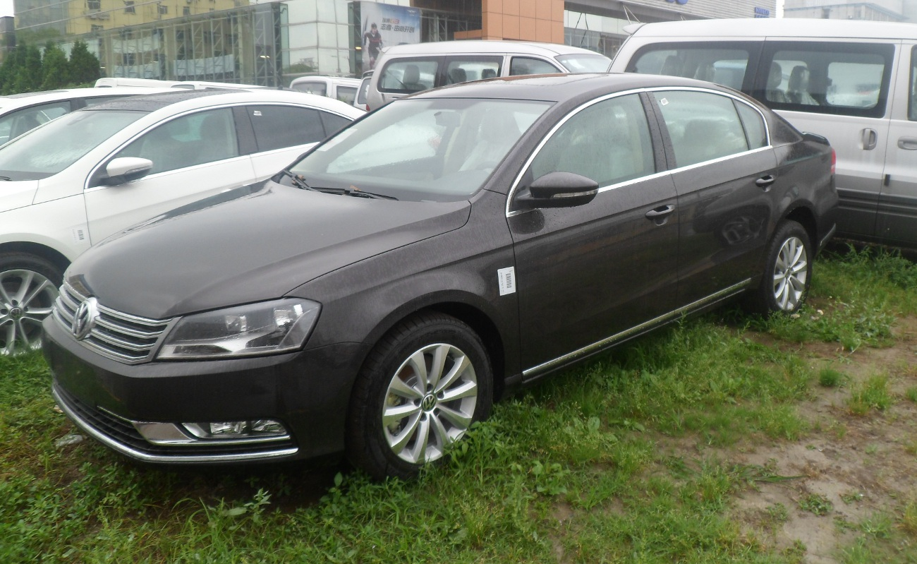 Volkswagen Magotan B7L photographed in Shanghai, China.